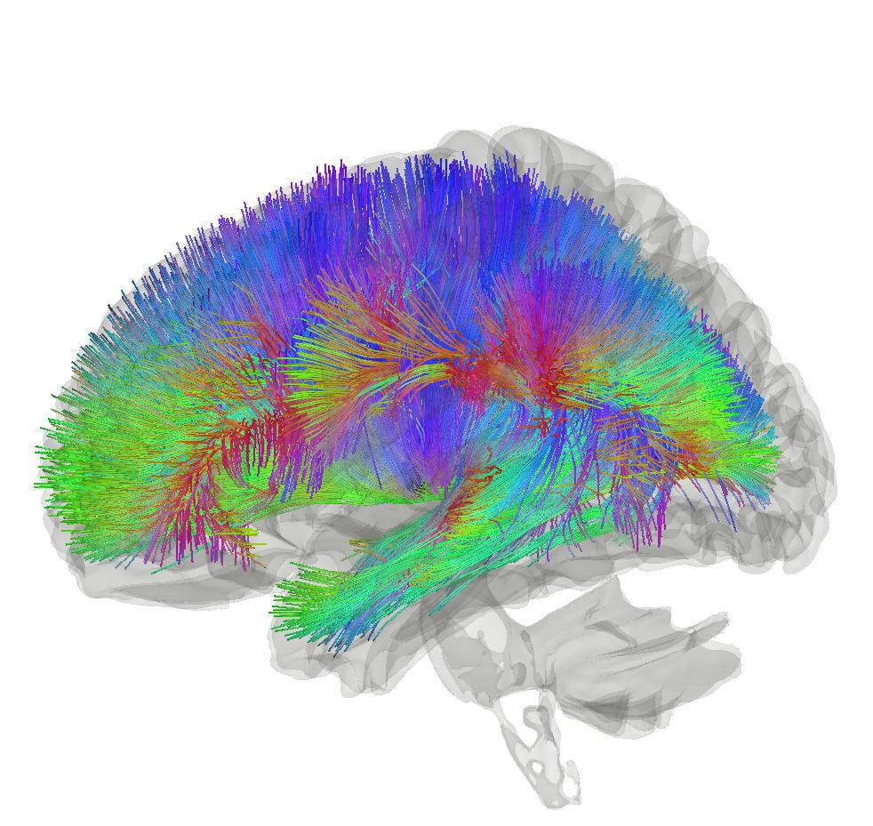 Tractography showing corticothalamic pathway on a population-averaged template